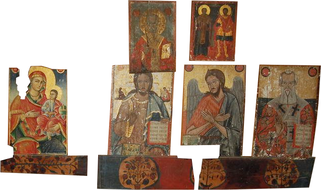 St. Athanasius Velušina Iconostasis